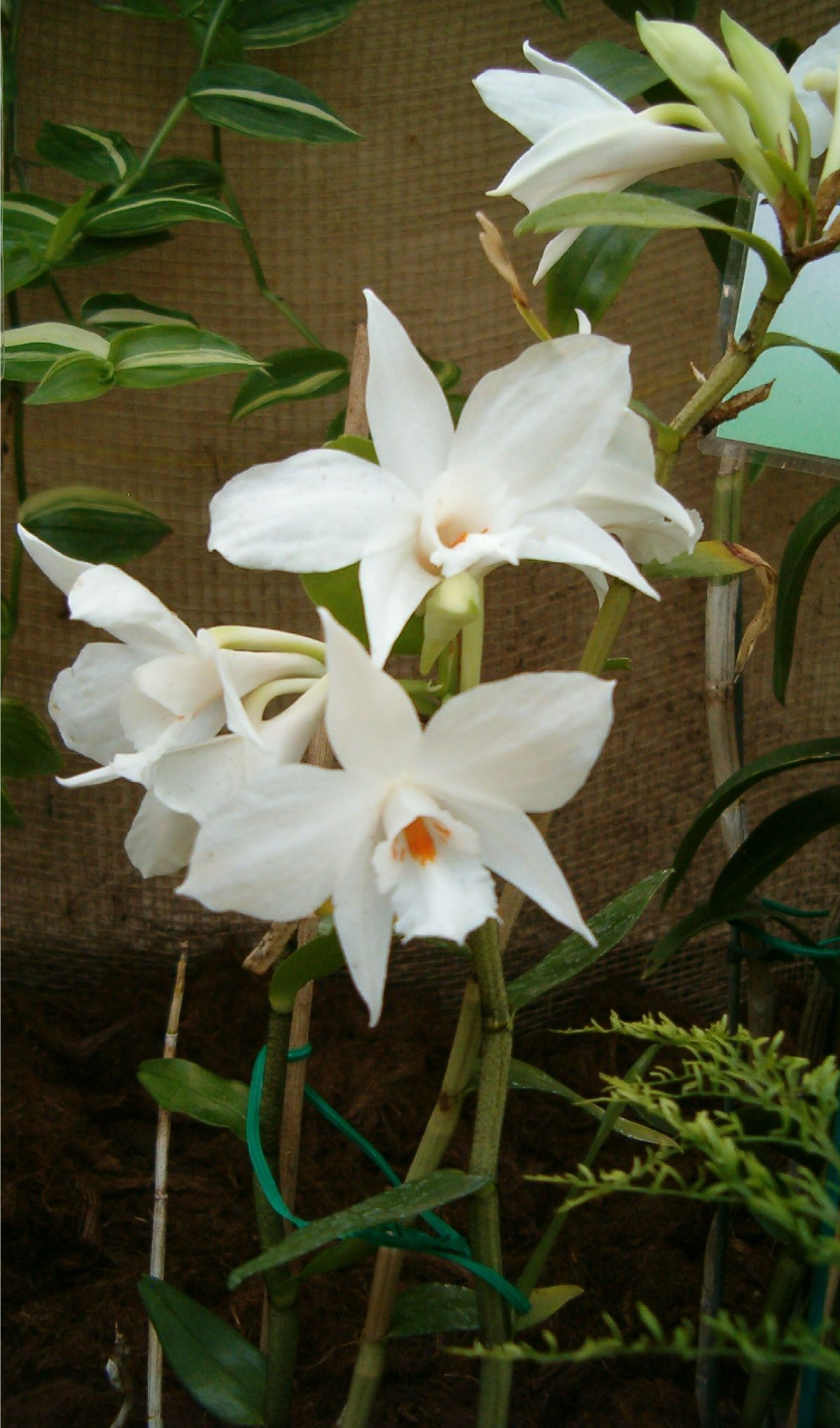 Dendrobium infundibulum, Habitus and Flowers Location: Botanical Gardens Berlin - Orchid Exhibition